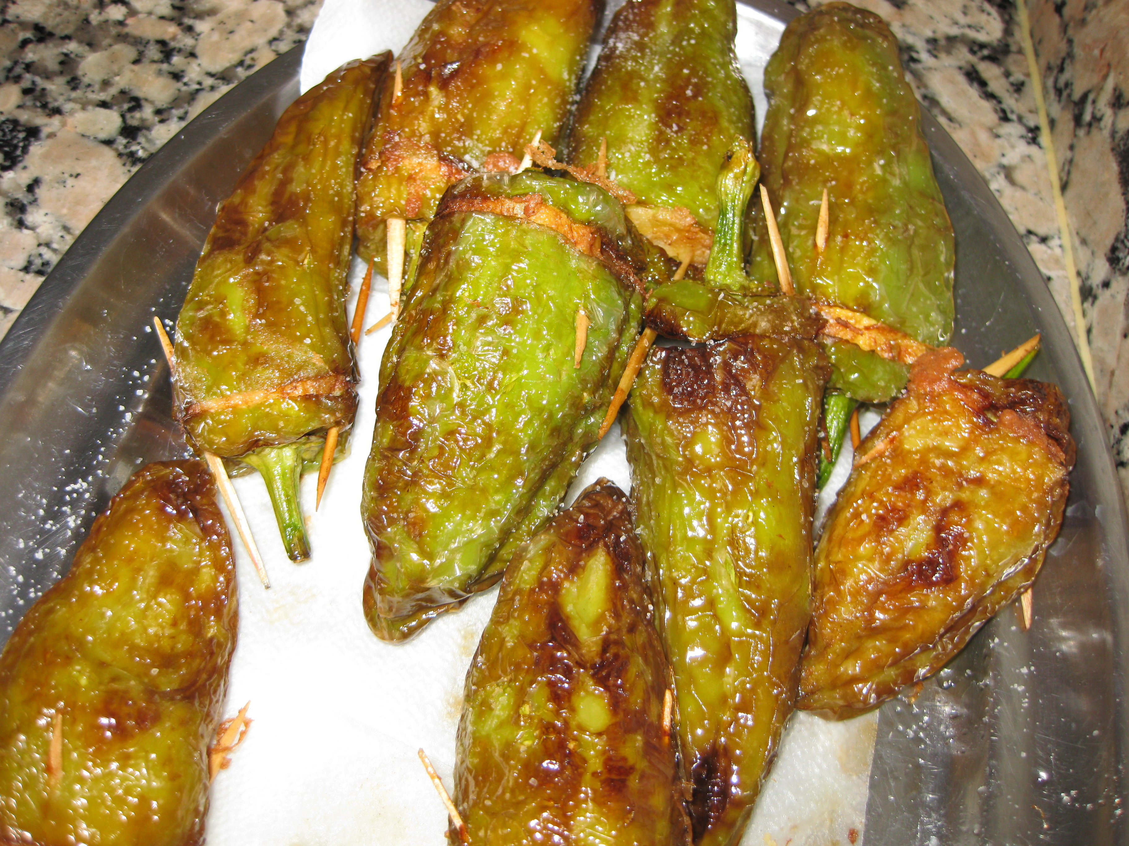 Arnoian bell peppers filled of Spanish omelette.